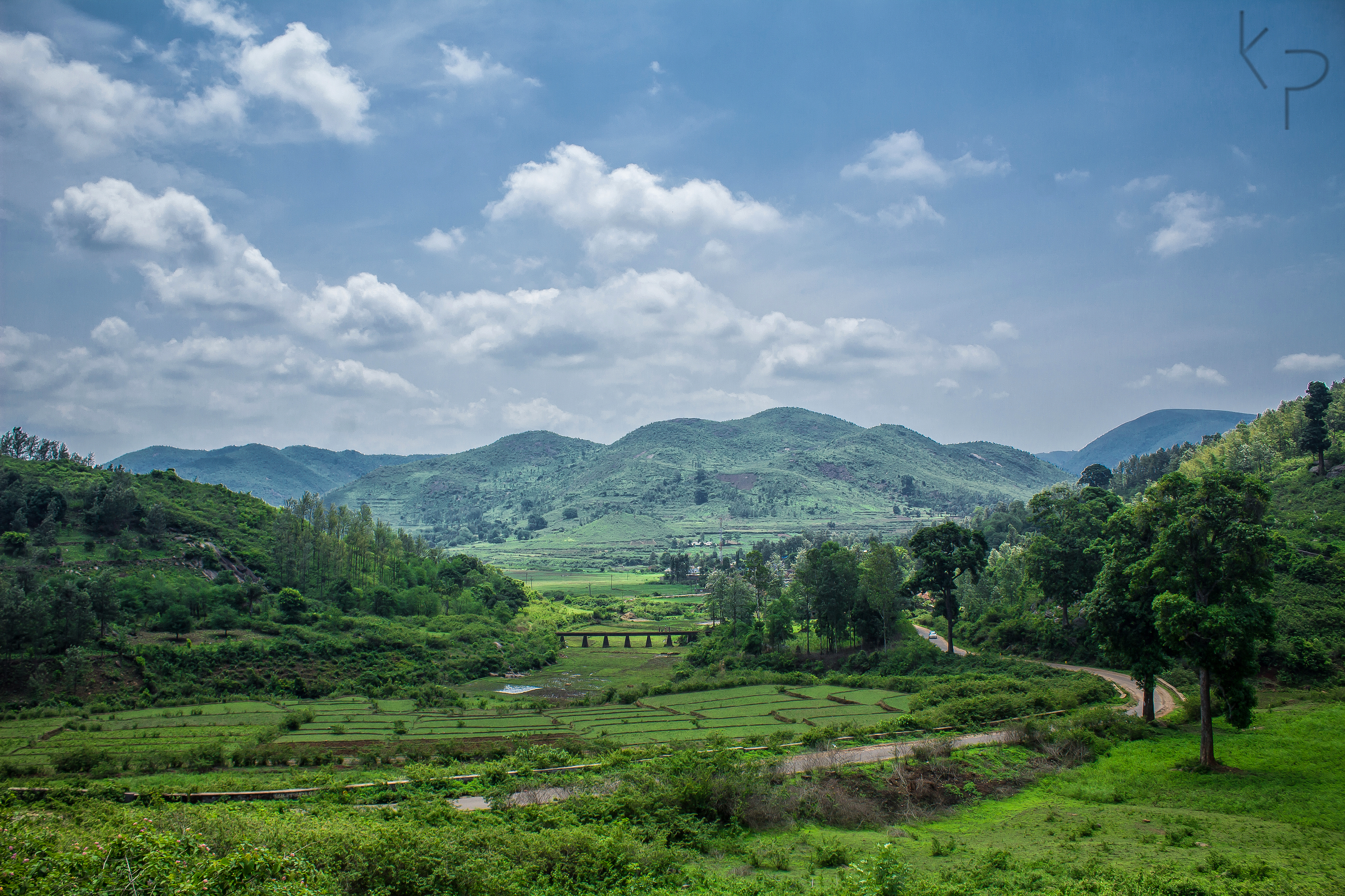 Stunning landscapes like this one can often be found at every turn on the way to a small village named "Paderu" of the state Andhra Pradesh in India.